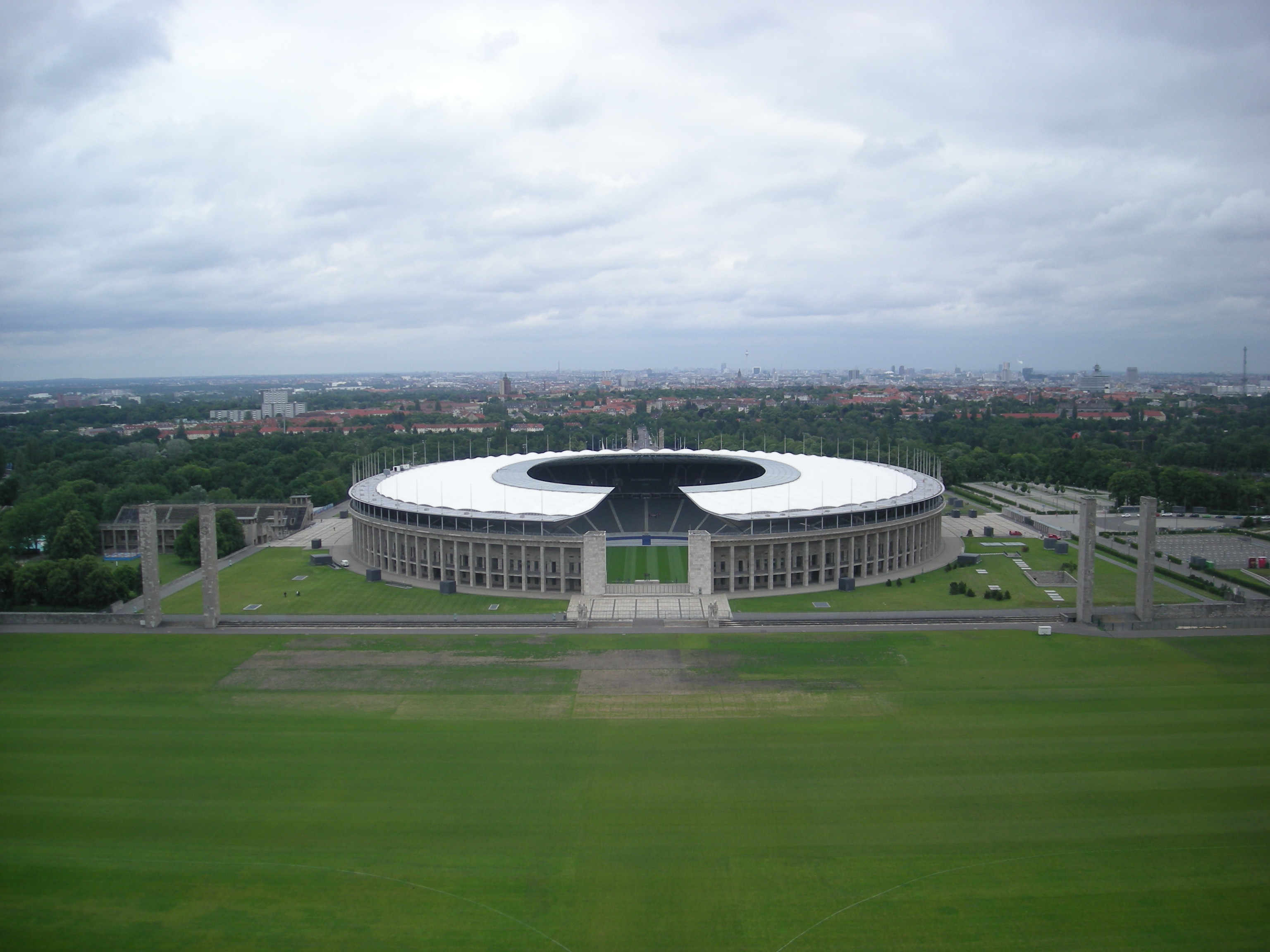 View of the stadium from the Belltower at the Olympiastadion in Berlin (Germany).